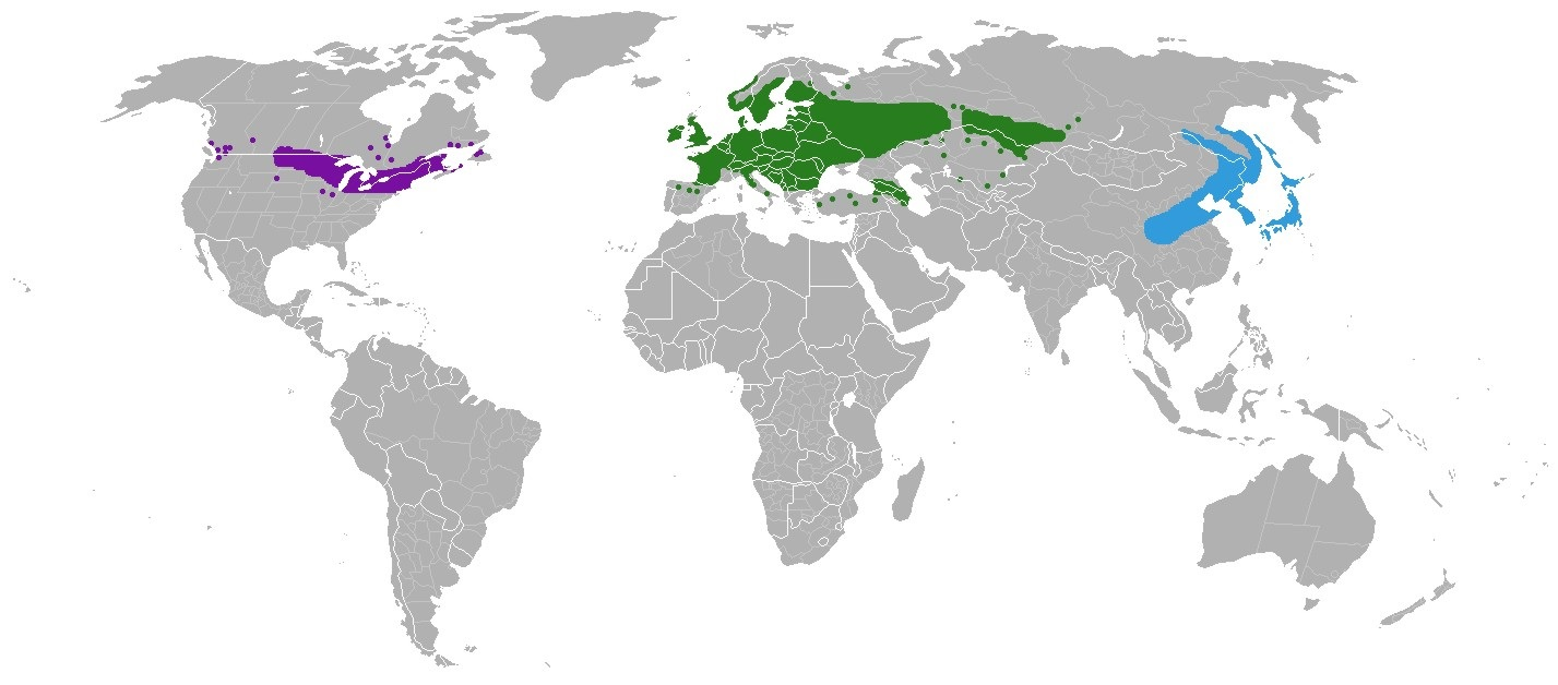 Map of distribution of Viburnum opulus var. opulus (green), var. sargentii (blue), var. americanum (violet). Source: Hultén, E. & Fries, M. 1986. Atlas of North European vascular plants